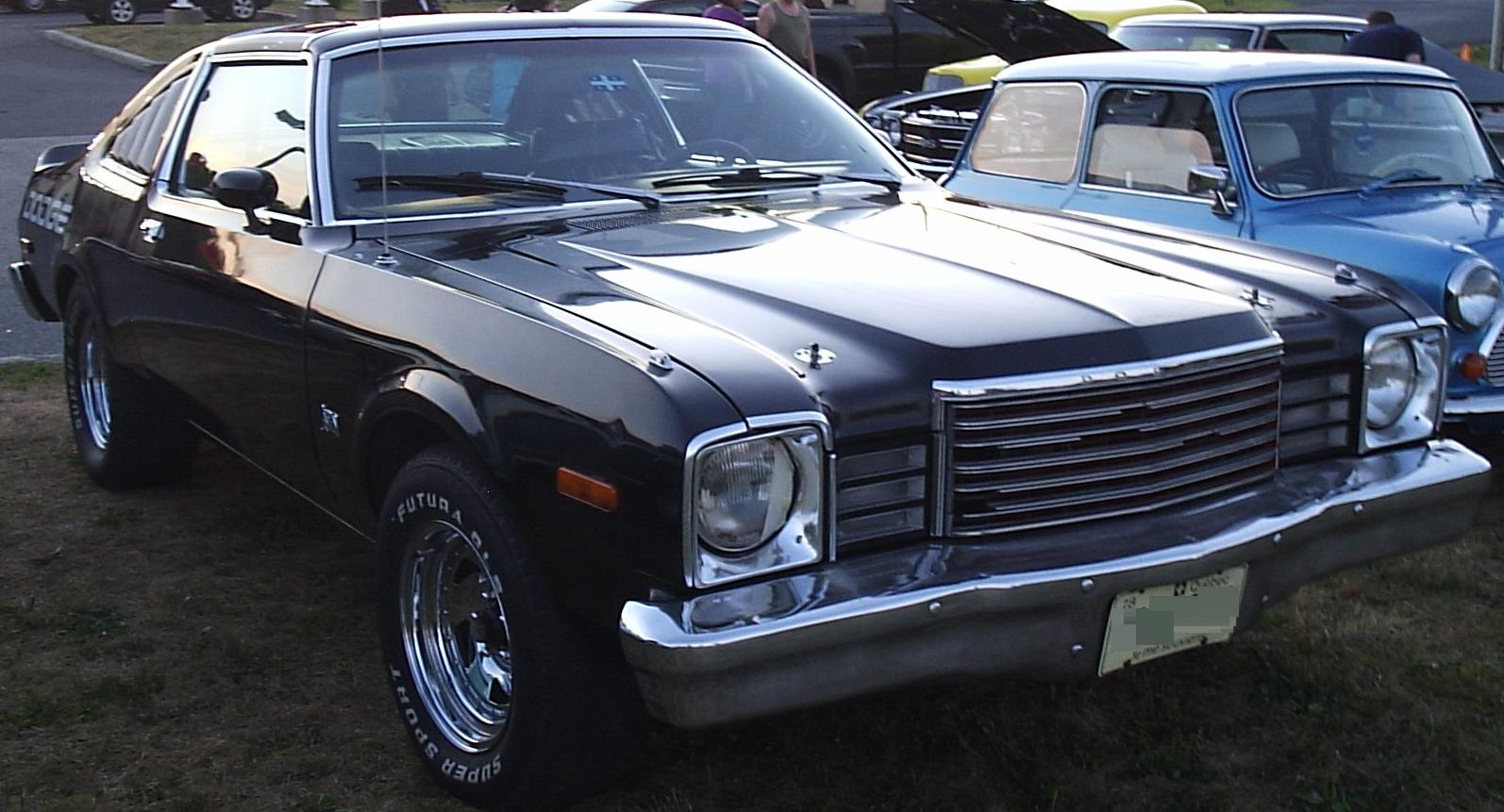 1978 Dodge Aspen photographed in Mont St. Hilaire, Quebec, Canada at the Auto classique VAQ Mont St-Hilaire.